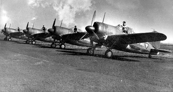 Catalog #: 00019167 Manufacturer: Brewster Designation: F2A Official Nickname: Buffalo Notes: Repository: San Diego Air and Space Museum Archive